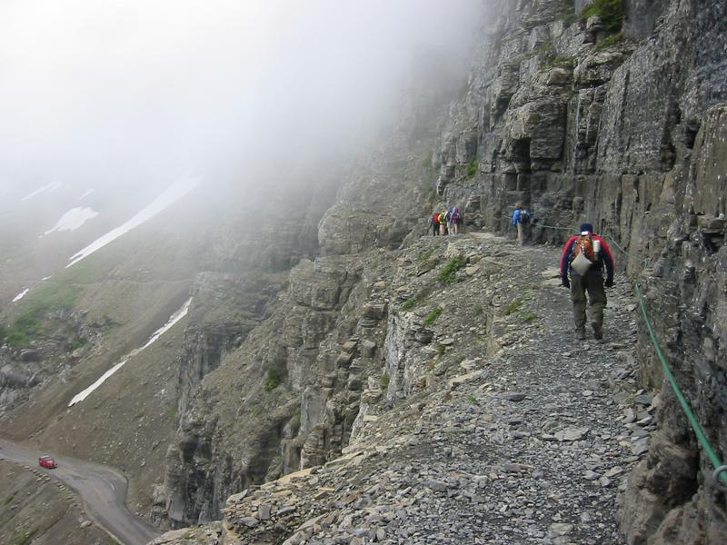 A picture of hikers along the Highline Trail in Glacier National Park, in the Garden Wall section. The fog on the left is from a cloud right about trail level.